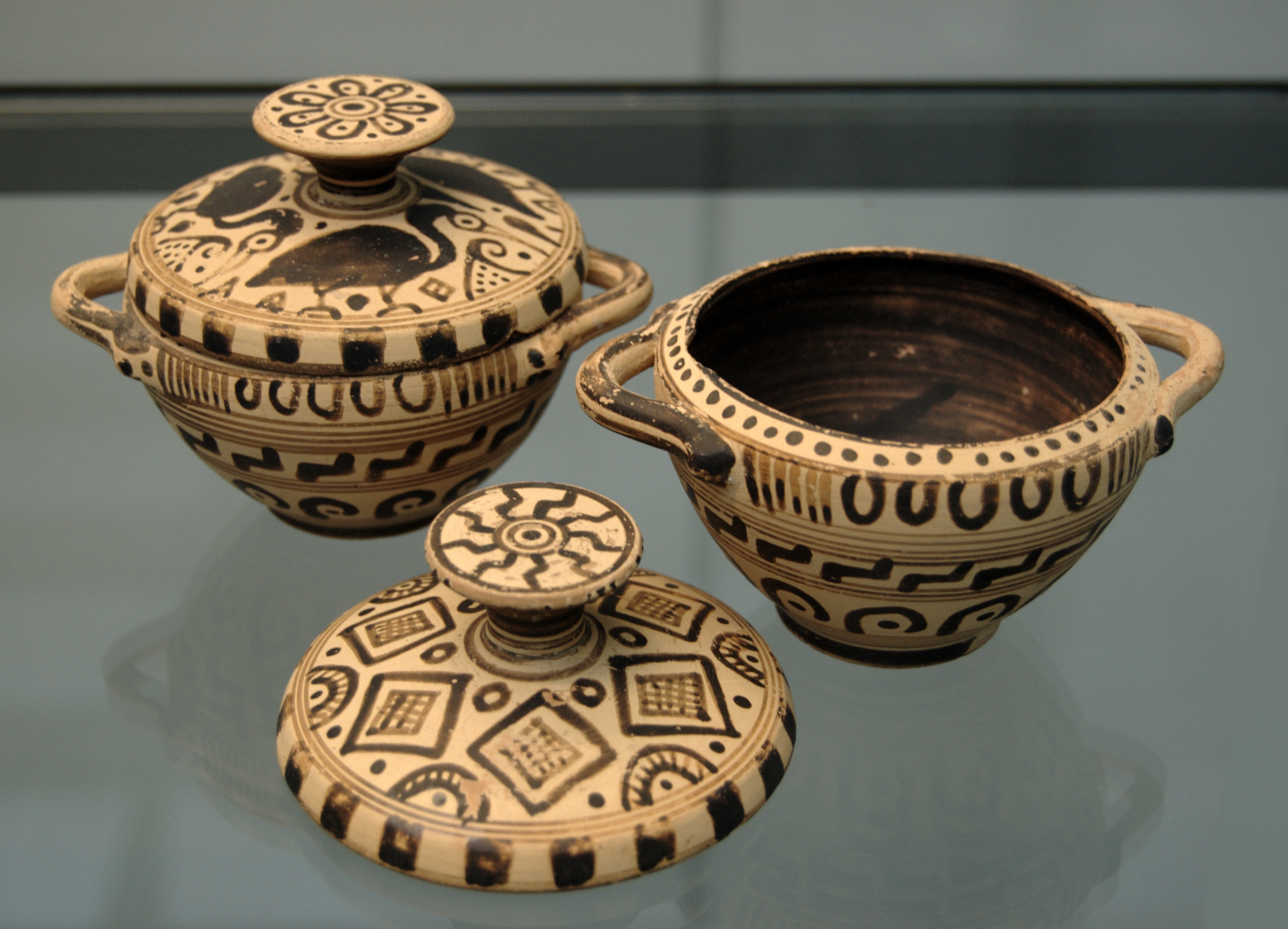 Tiny bowls, typic funerary materials. Attica, 7th century BC.